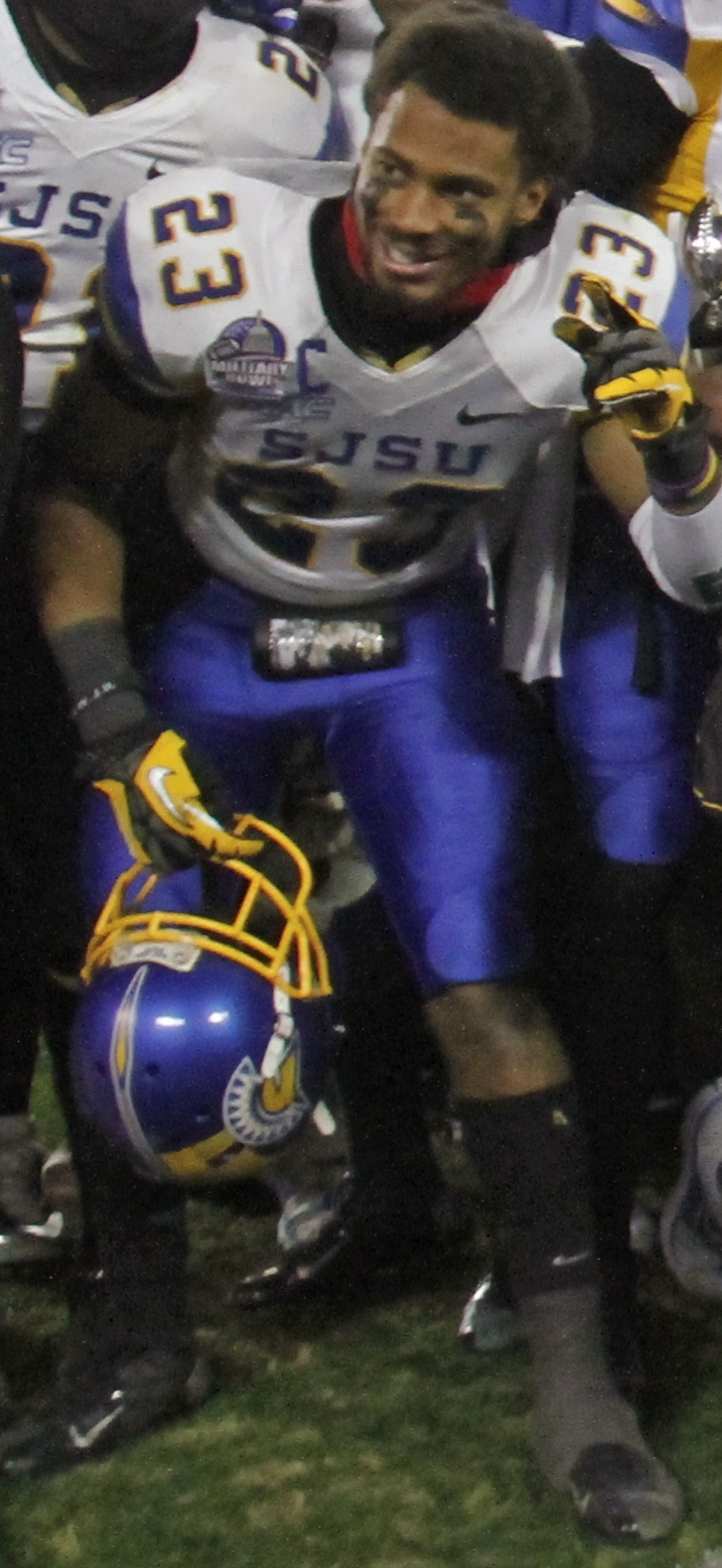 San Jose State wide receiver Noel Grigsby after SJSU's win in the Military Bowl in 2012.